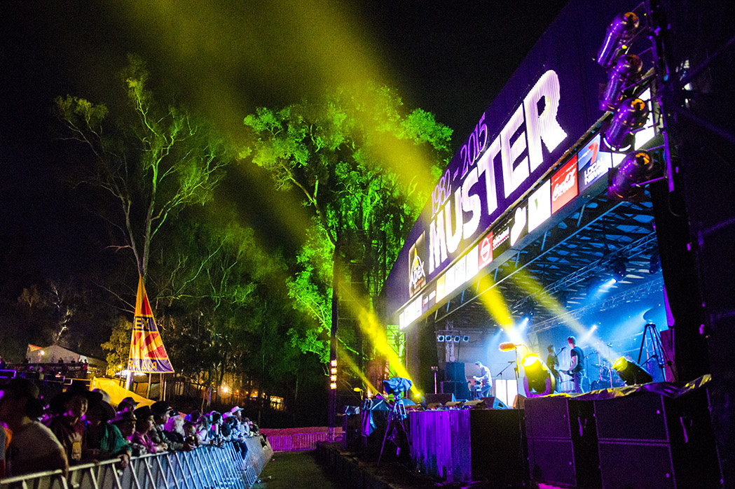 Mainstage 2015